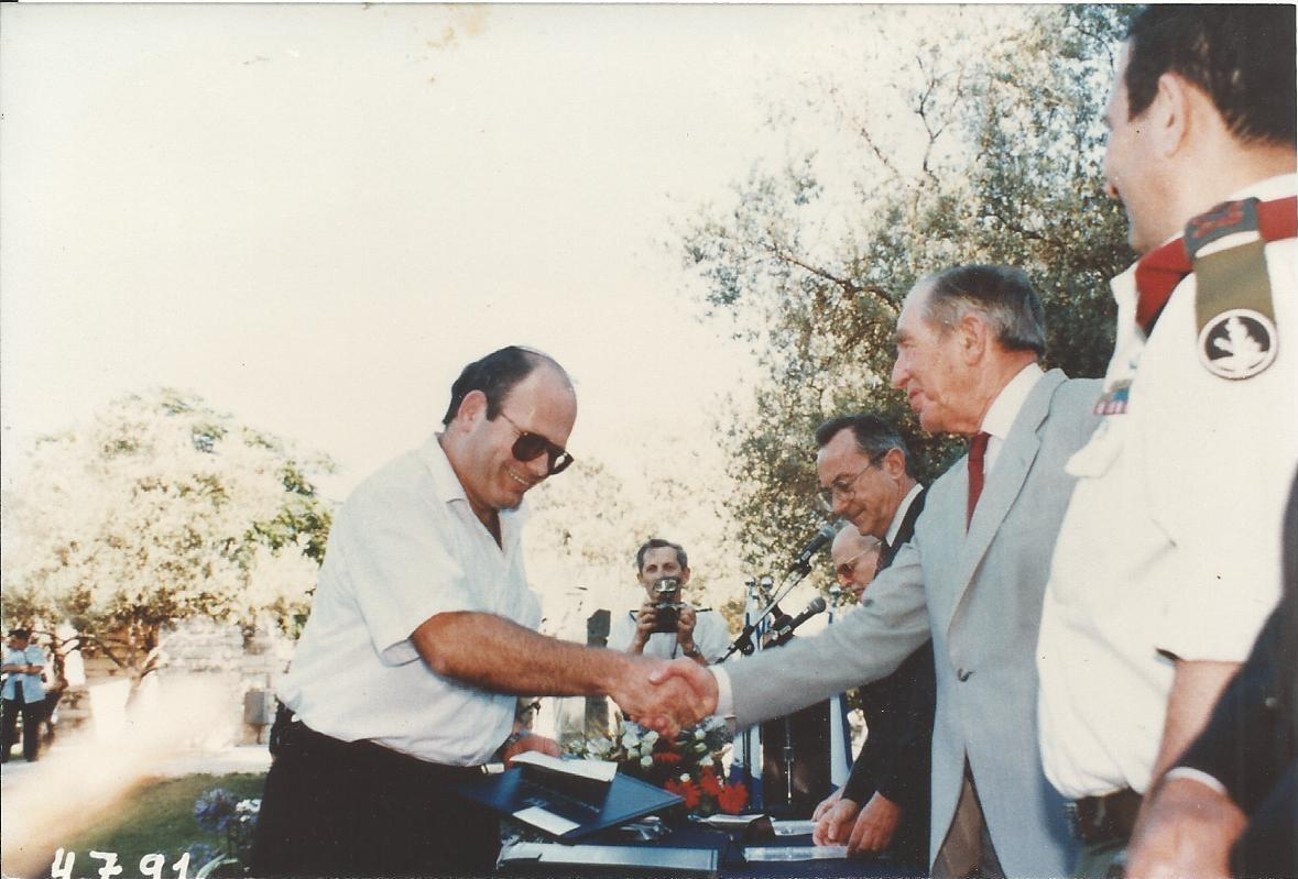 Dr. Menachem Zucker receives the Israel Defense Prize from the hands of Chaim Herzog, the 6th president of Israel.